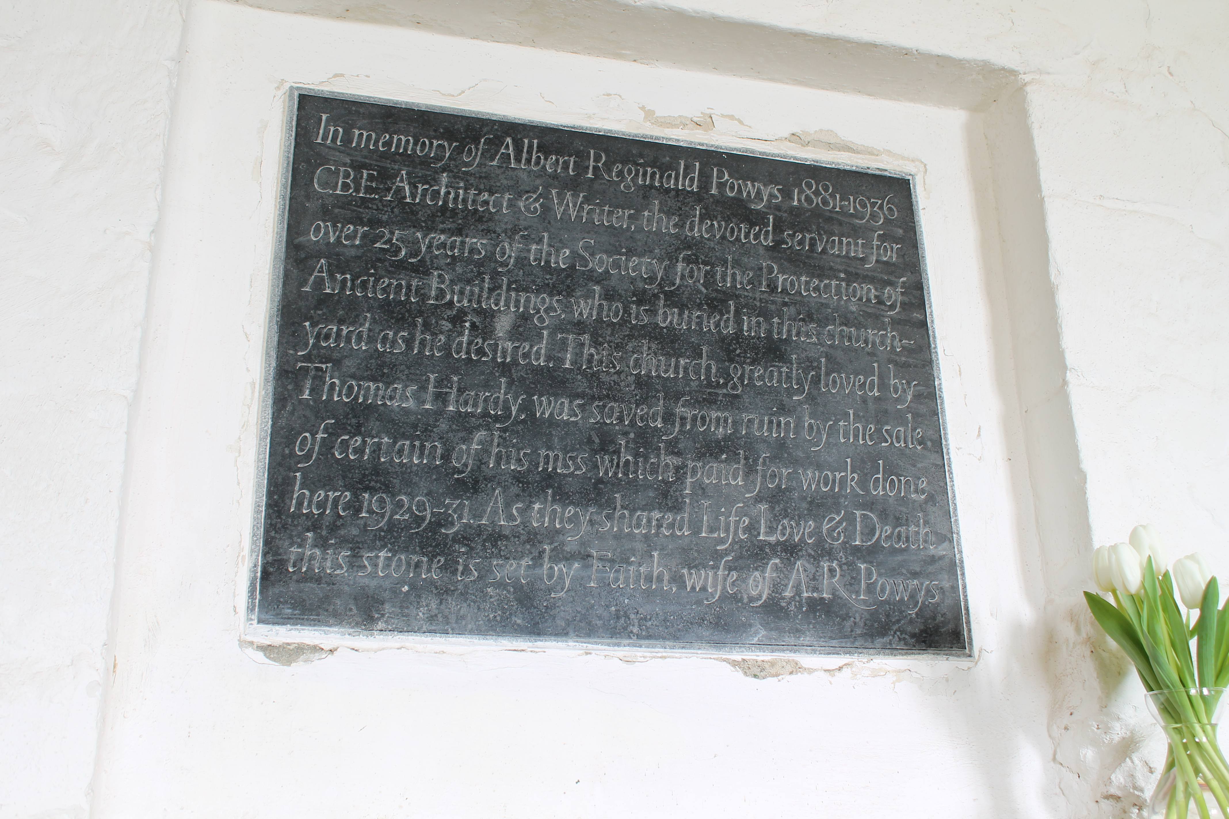 Inscription tablet to A.R. Powys, on the wall of St Andrew's, Winterborne Tomson. Powys was responsible for the 1931 restoration of the church, funded by the sale of Thomas Hardy manuscripts.